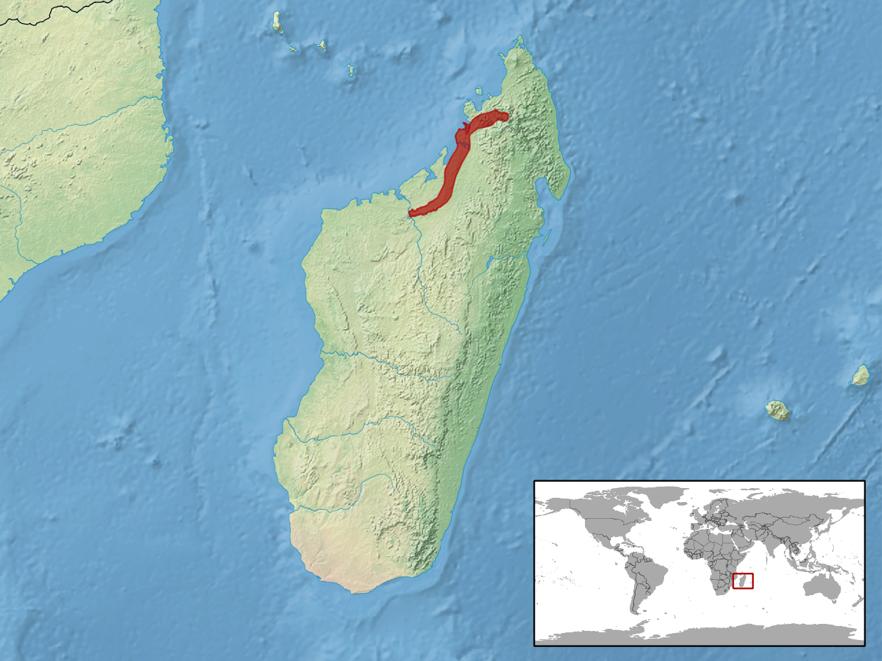 geographic distribution of Amphiglossus tanysoma